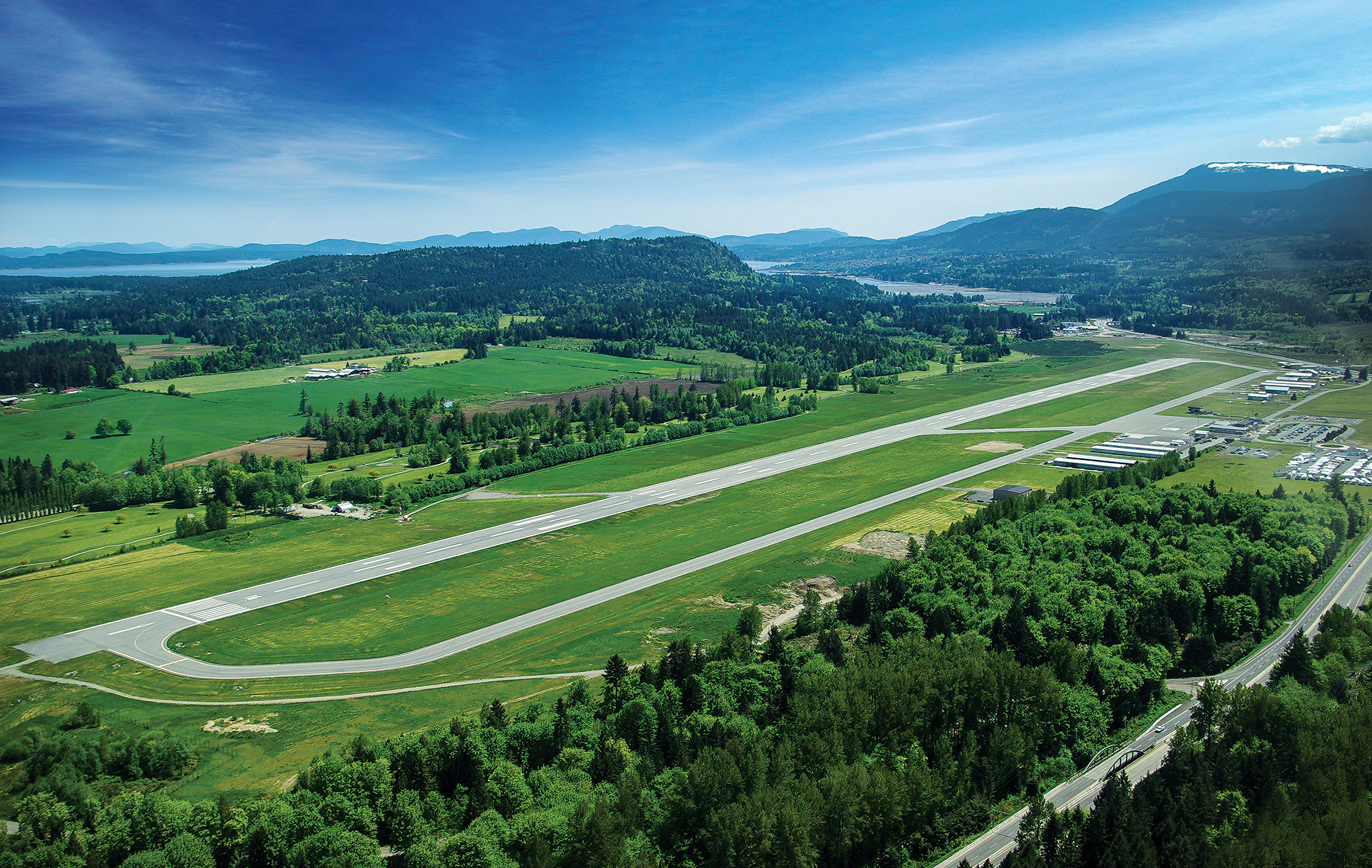 Low-Level Aerial shot of the Nanaimo Airport post-runway-expansion